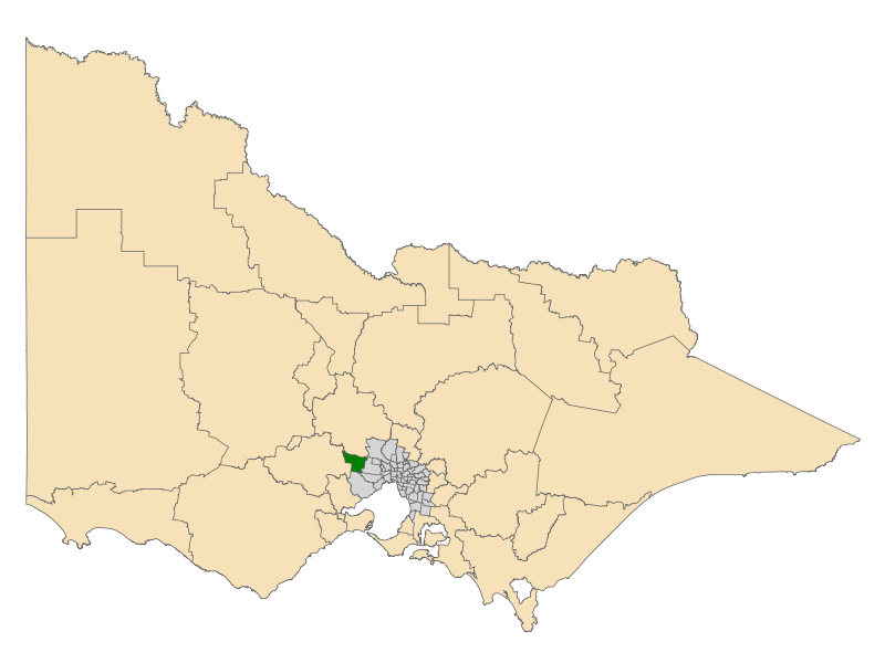 Location of the Electoral District of Melton (dark green) in the state of Victoria, Australia. These boundaries were used for the Victorian state election on 29 November 2014.